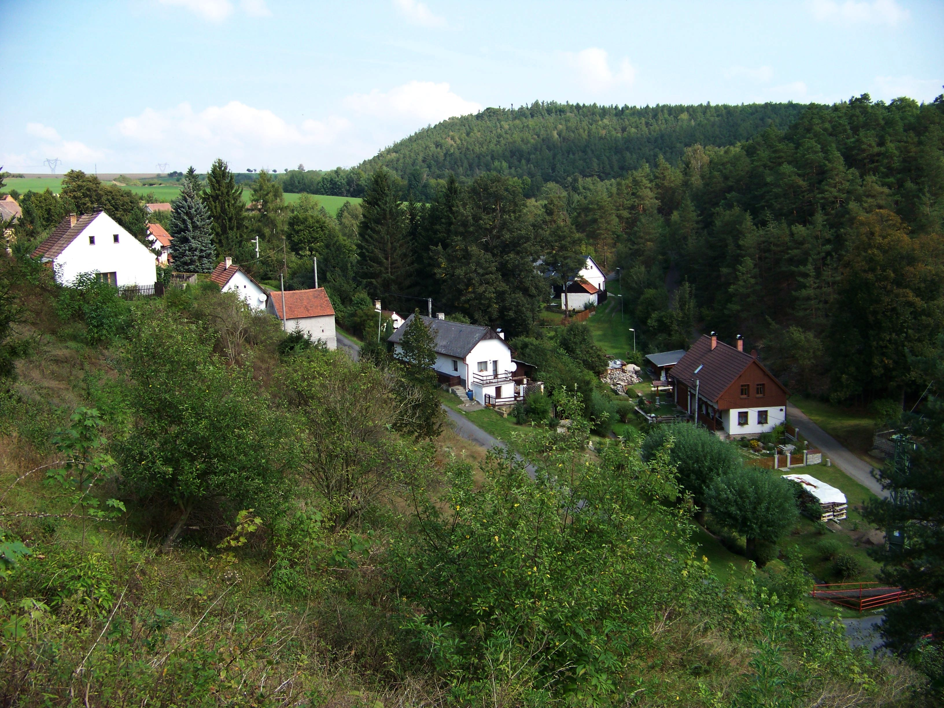 Krakovec, Rakovník District, Central Bohemian Region, the Czech Republic.